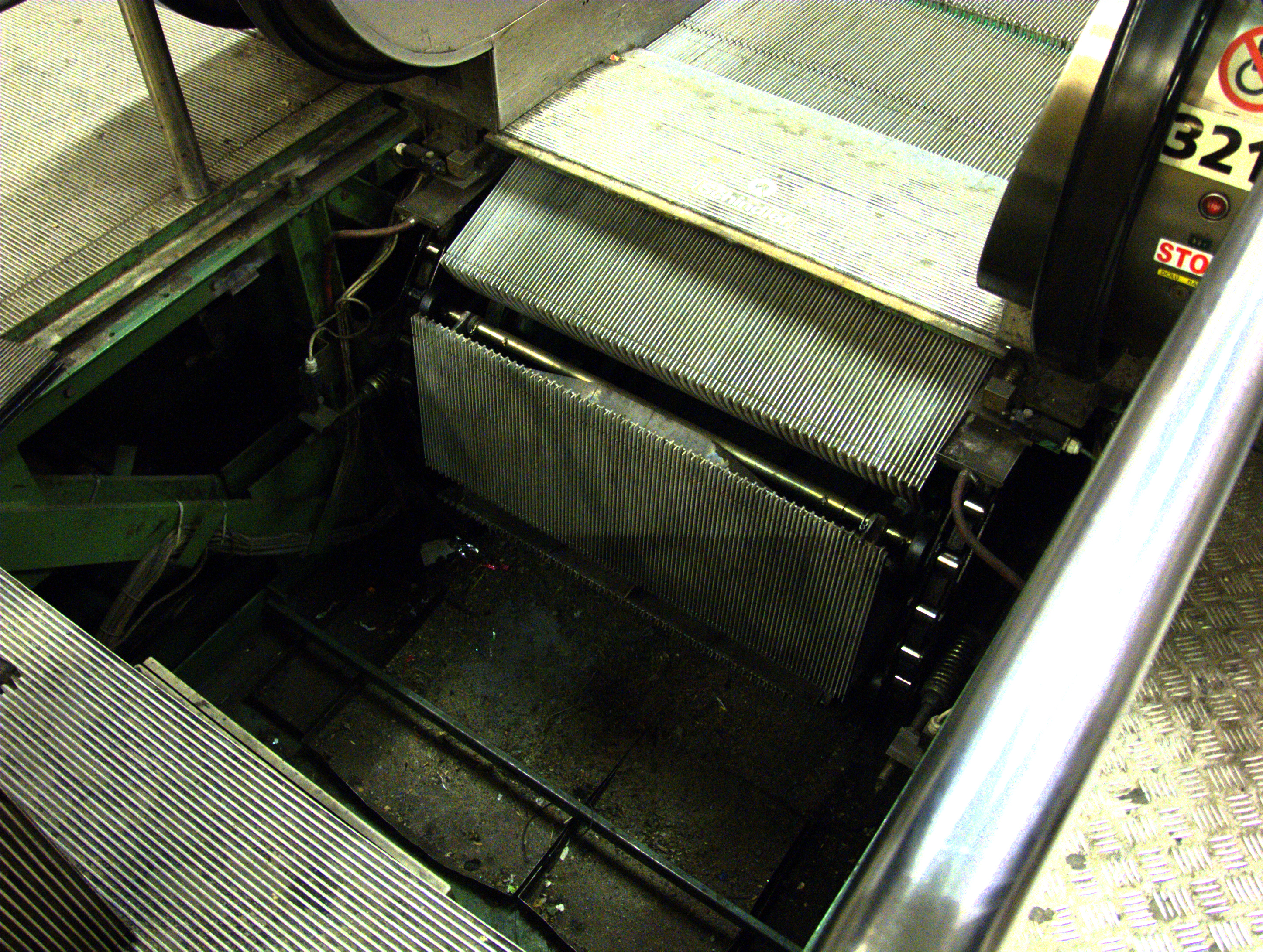 Escalators at I. P. Pavlova metro station ready for replacement/repair, Prague, CZ